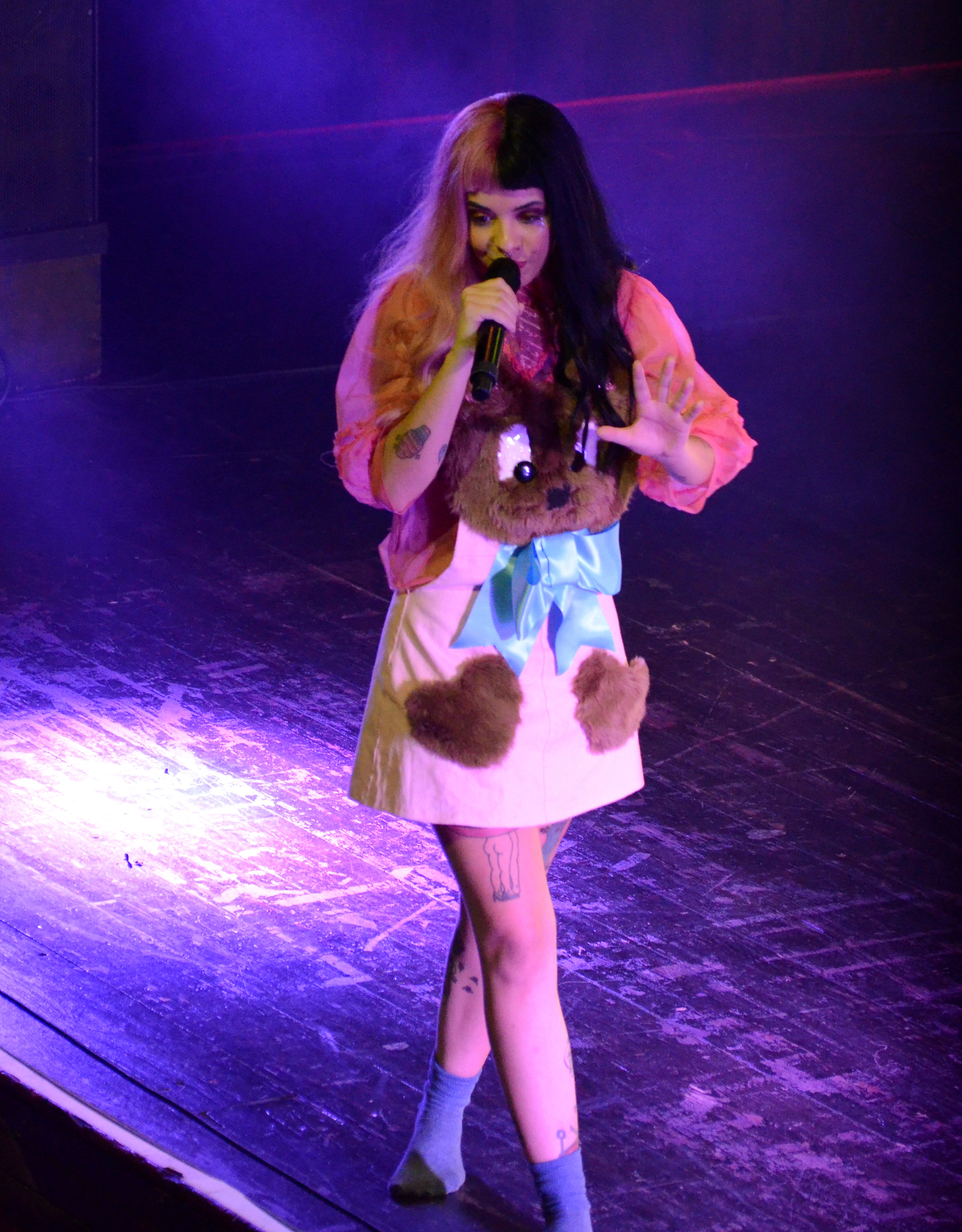 Melanie Martinez on House of Blues, localized in Orlando, Florida, in April 4, 2016.